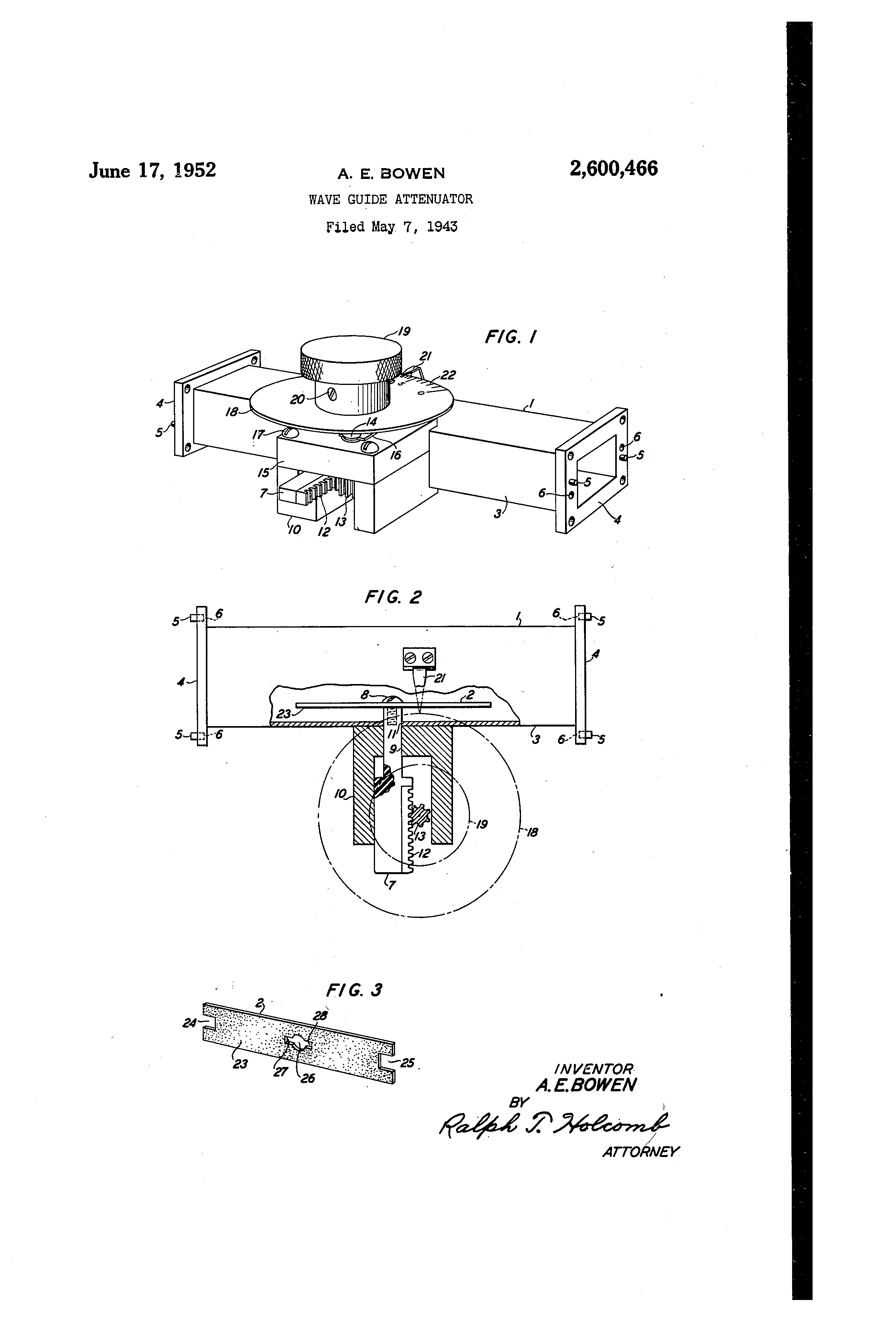 Attenuator_US_Patent_No._2600466 By A. E. Bowen